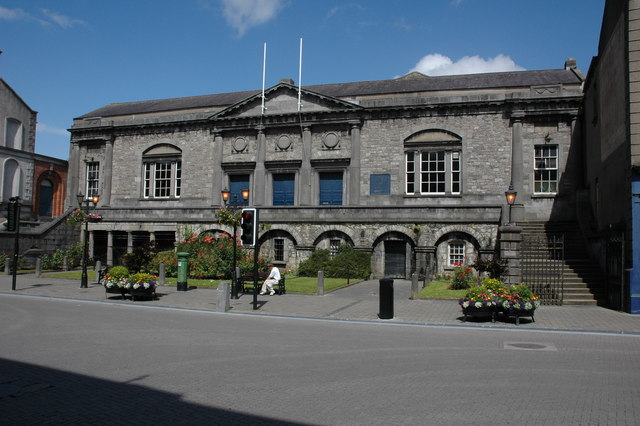 Grace's Castle, Kilkenny Originally dating from the early 13th century the building was latter converted to a jail. Since the 18th century it has been a courthouse.